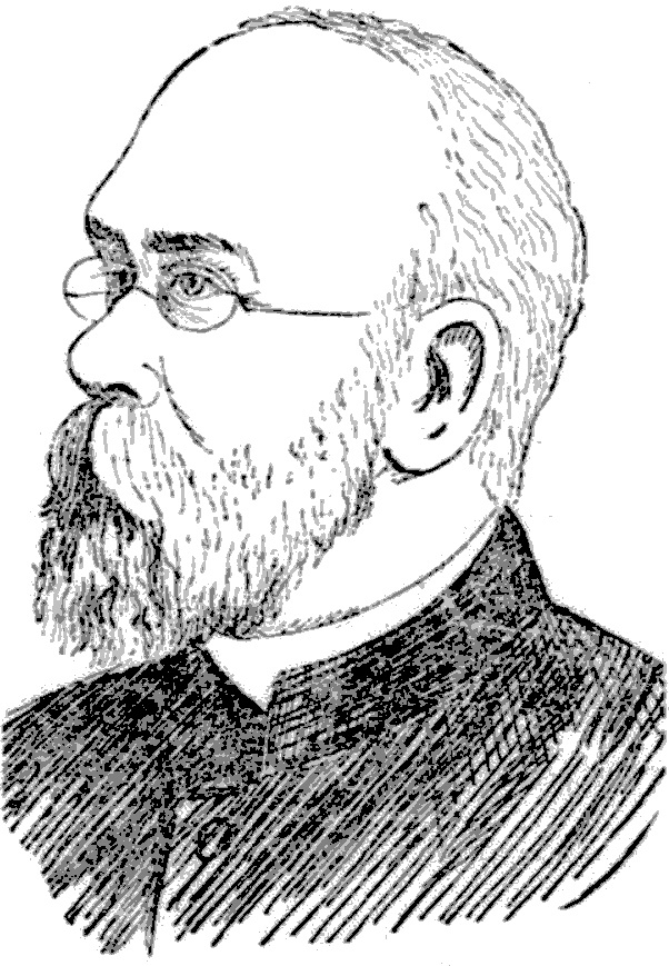 Newspaer engraving of Rev James Young Simpson (died 1898)